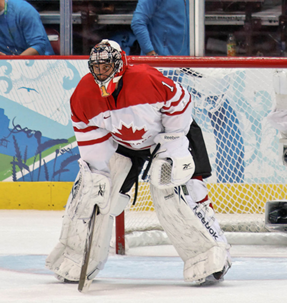 Canada goaltender Roberto Luongo watches the action against Russia during the 2010 Winter Olympics.